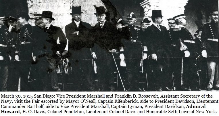 1915 San Diego Fair with the Vice President and Assistant Secretary of the Navy in attendance